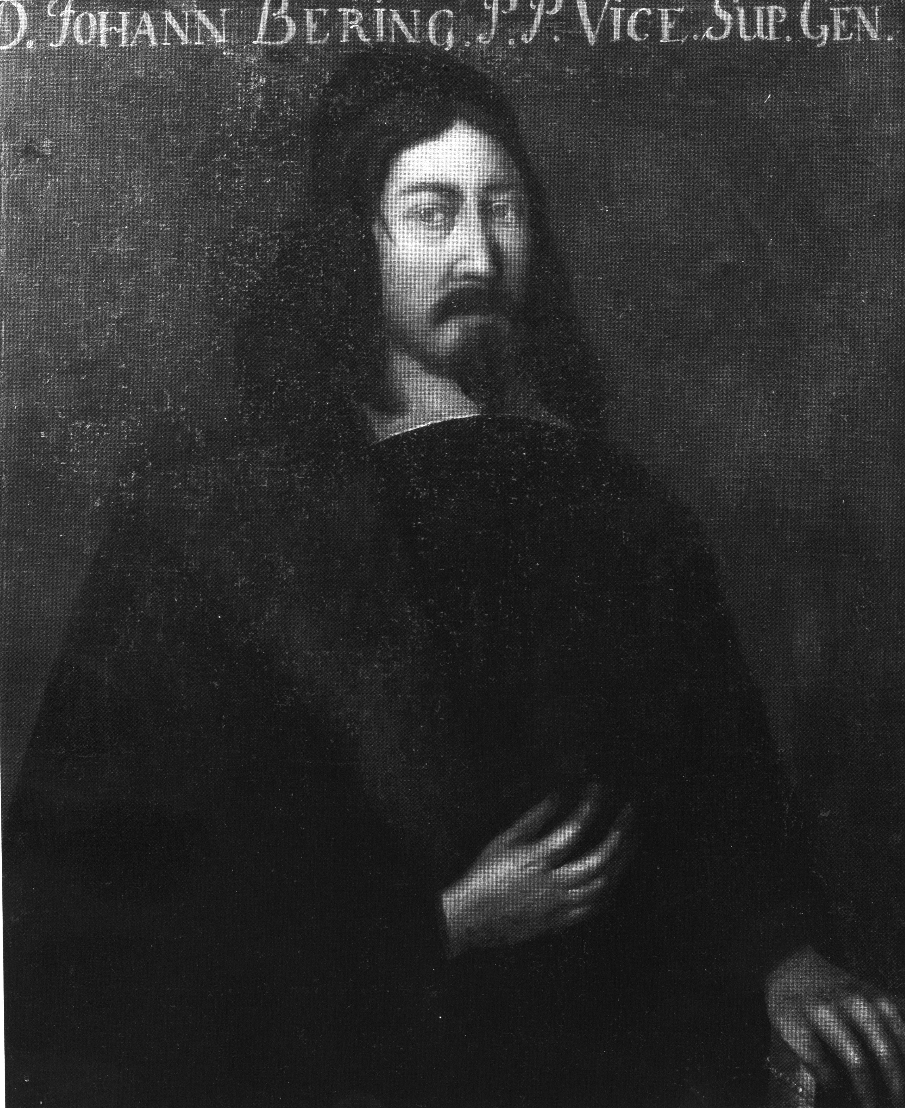 Theologe Johannes Bering (1607-1658)